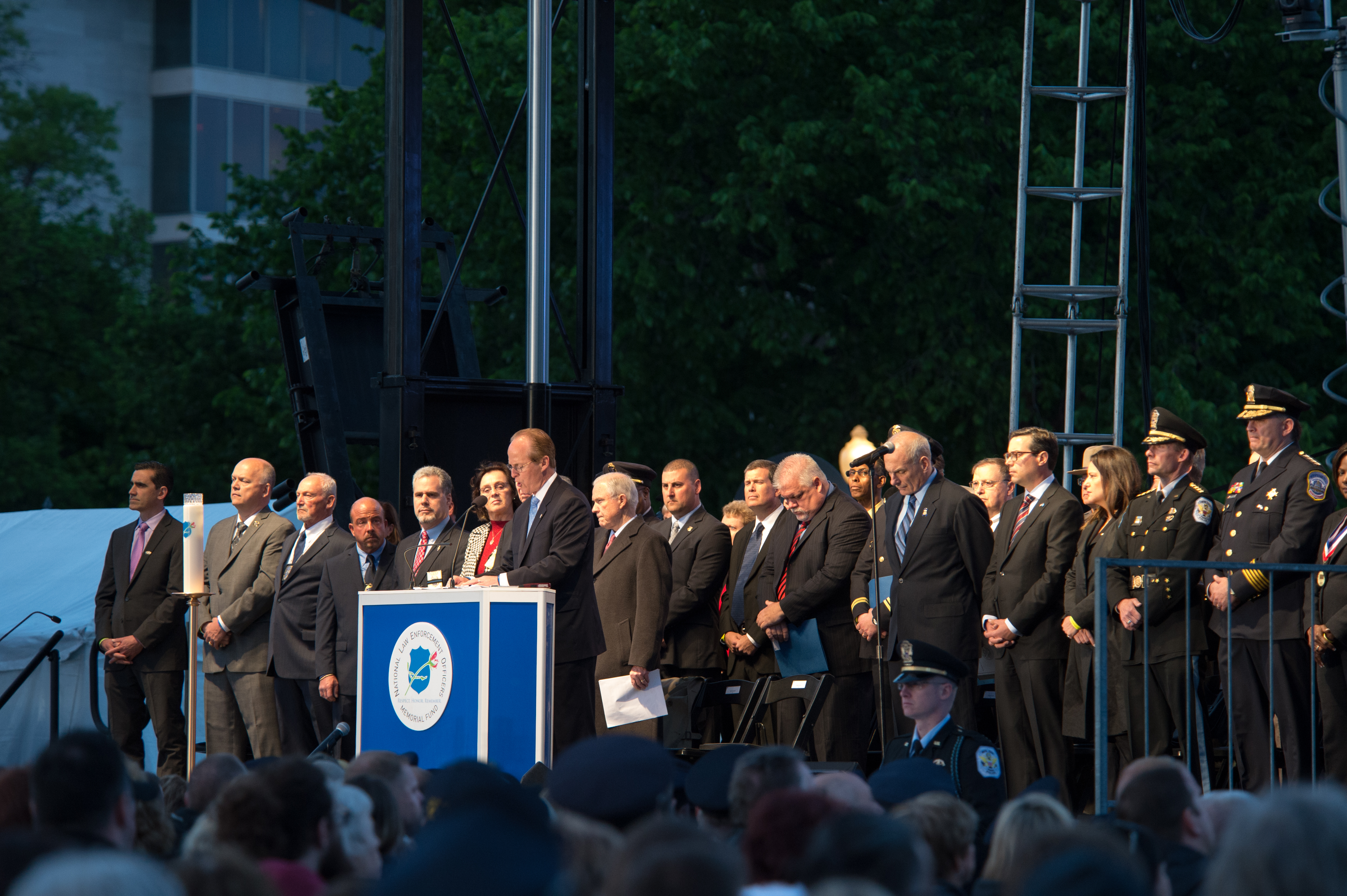 Washington, D.C., 13, May 2017. During the 29th annual Candlelight Vigil the names of the offer’s who were killed in the line of duty were read aloud as candles were lit by the thousands in attendance. U.S. Attorney General Jeff Sessions and Secretary of the Department of Homeland Security John Kelly spoke on the sacrifice made by law these law enforcement officers and the importance of officer safety. The Attorney General and Concerns of Police Survivors National President Brenda Donner began lighting of candles and U.S. Marshals Service Director David Harlow read the name of DUSM Patrick Carothers, who was killed in November of 2016, while apprehending a violent fugitive. Photo By: Shane T. McCoy / US Marshals